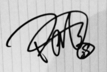 This is Pat Lui's signature.